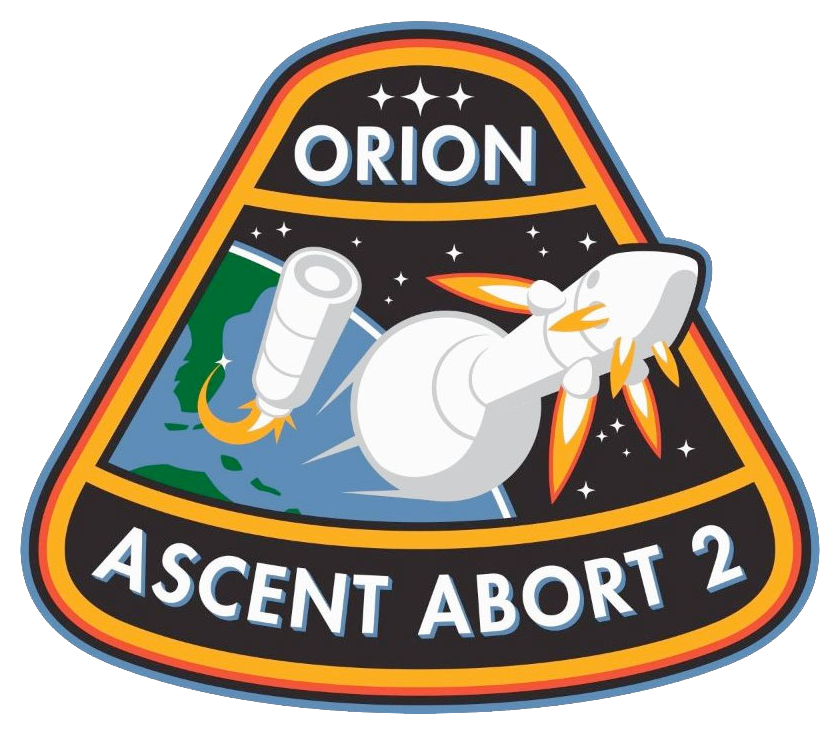 The official mission insignia from the Ascent Abort-2 mission, the second flight of the Artemis program and the Orion Multi-Purpose Crew Vehicle.